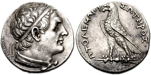 PTOLEMAIC KINGS of EGYPT. Ptolemy IV Philopator. 221-205 BC. AR Tetradrachm (26mm, 14.10 gm, 12h). Arados mint. Undated issue, struck circa 214-212 BC. Diademed head of Ptolemy I right, wearing aegis / PTOLEMAIOU SWTHROS, eagle standing left on thunderbolt.